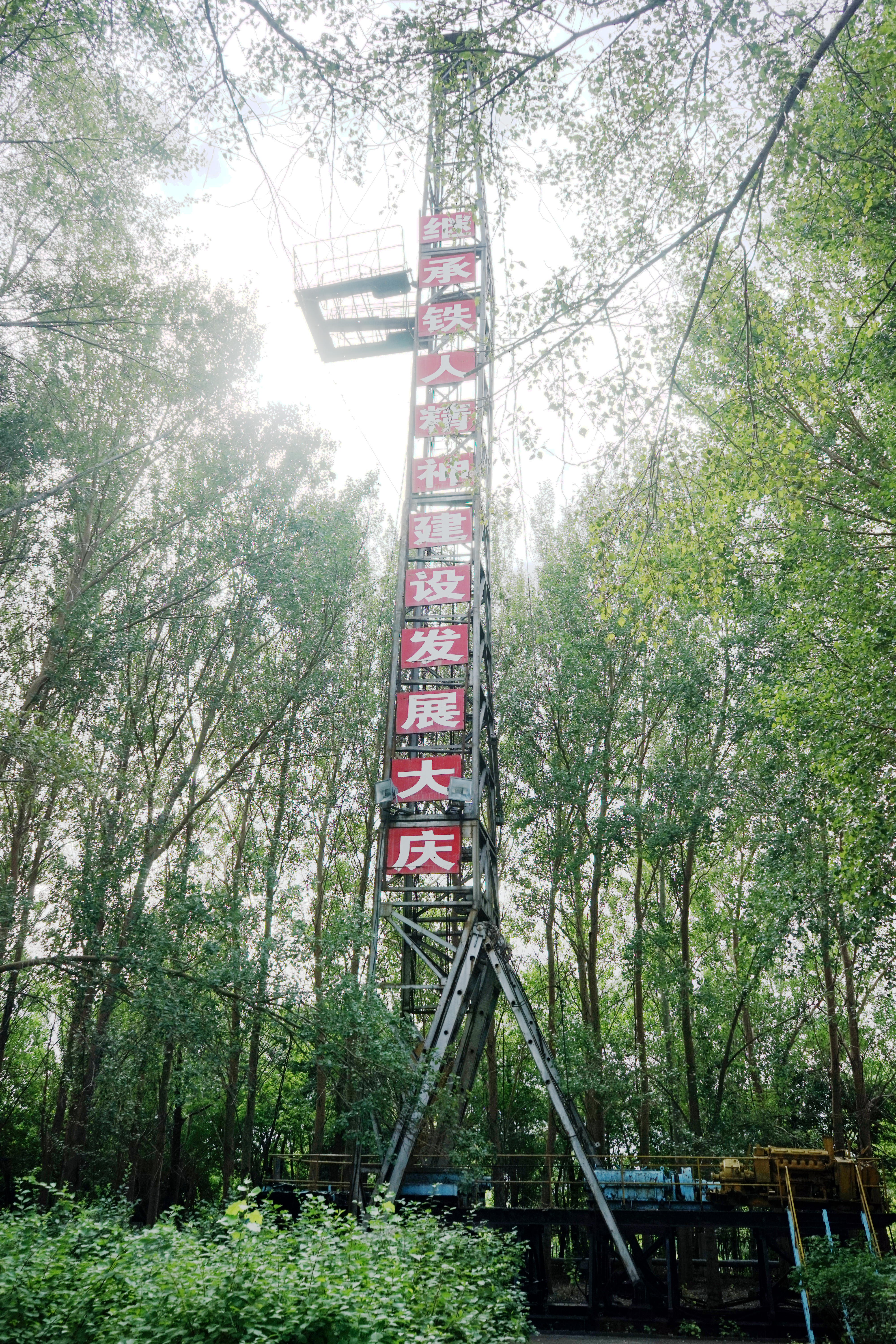 БУ-40 Drilling Rig. It has a hieght of 40 meters and a weight of about 4 tons. The drilling capacity is 1200 meters. Wang and his collegues used this kind of rig to drill the Well Sa-55.